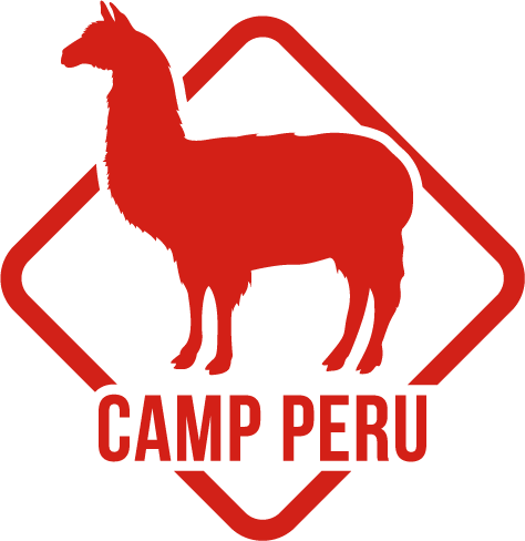 Logo for Camp Peru, a subsidiary of Camps International.